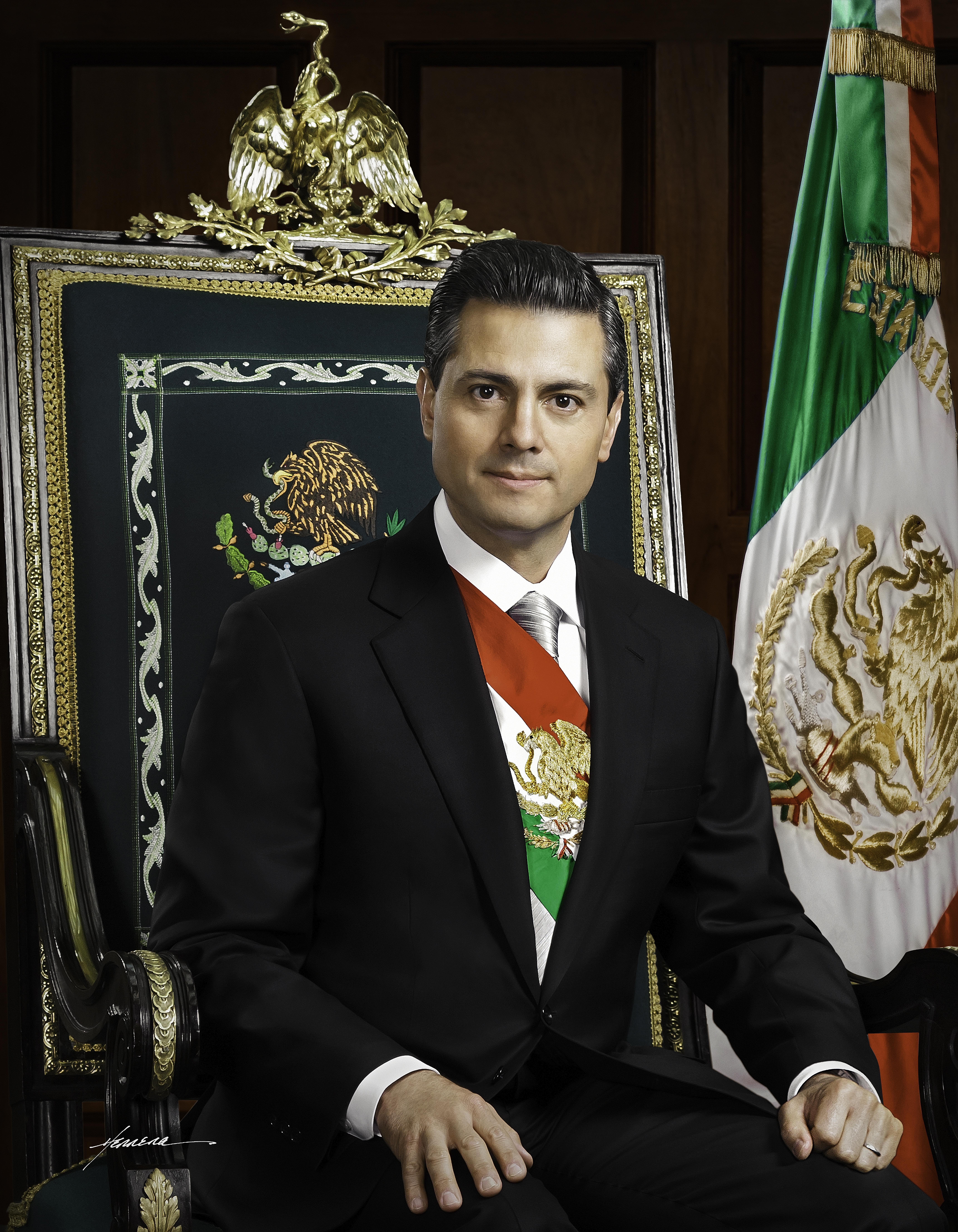 Official photograph of the President of México, Mr Enrique Peña Nieto. 2012-2018 The Presidency of the Republic.